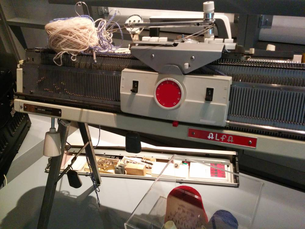 Tricotosa machine by Alfa, a Basque company.